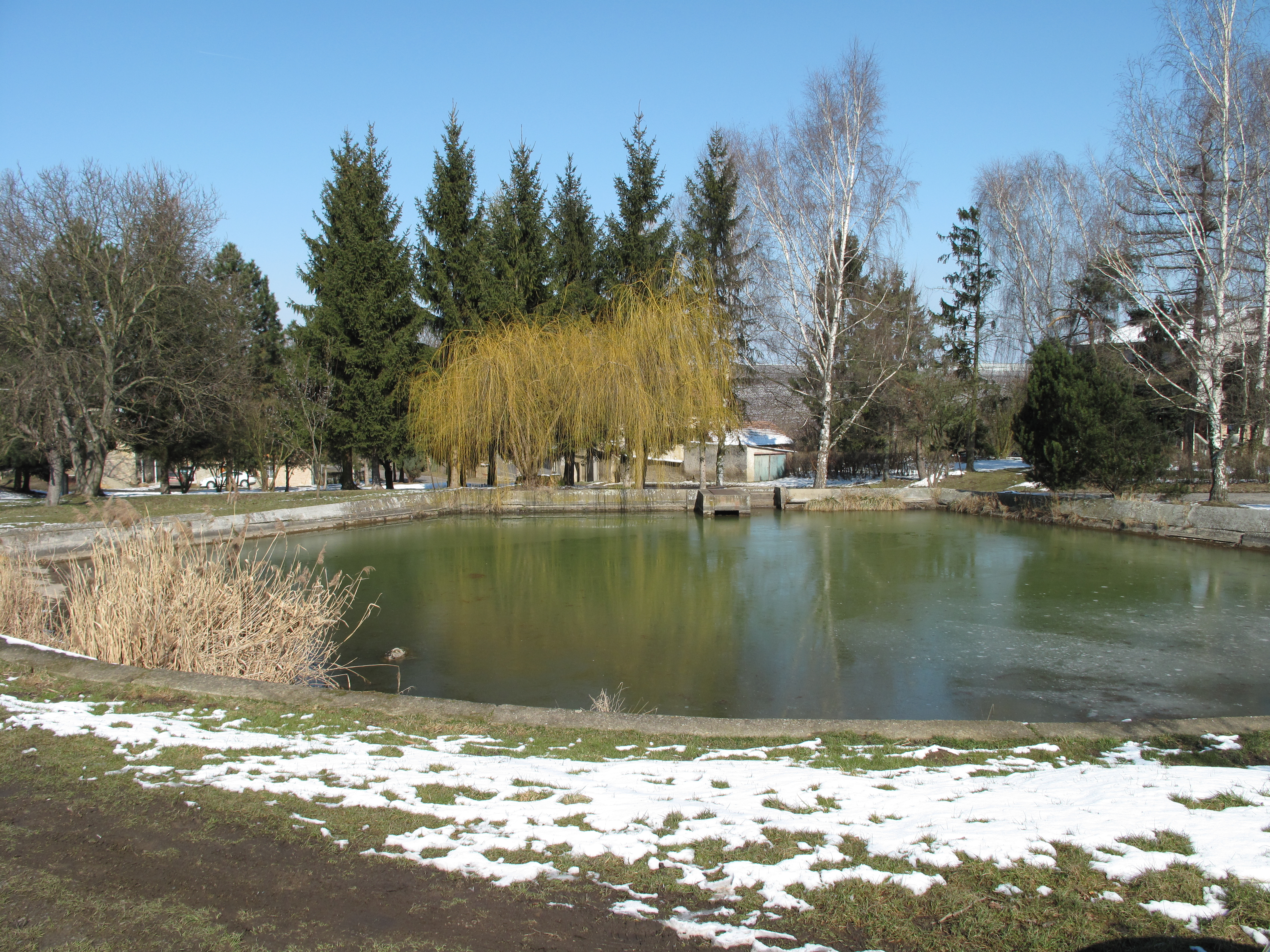 Pond in Lisovice village (Zlonice municipality), Kladno District, Czech Republic.